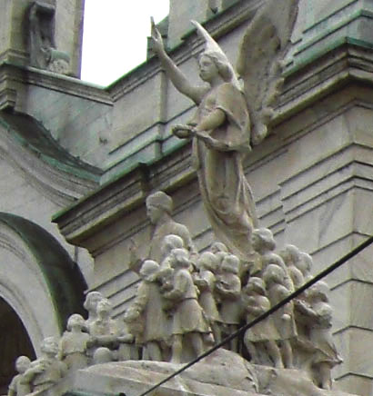 Close up of the statue of Father Nelson Baker with children on top of one of the colonnades that appears on the side exterior of Our Lady of Victory Basilica in Lackawanna, New York.